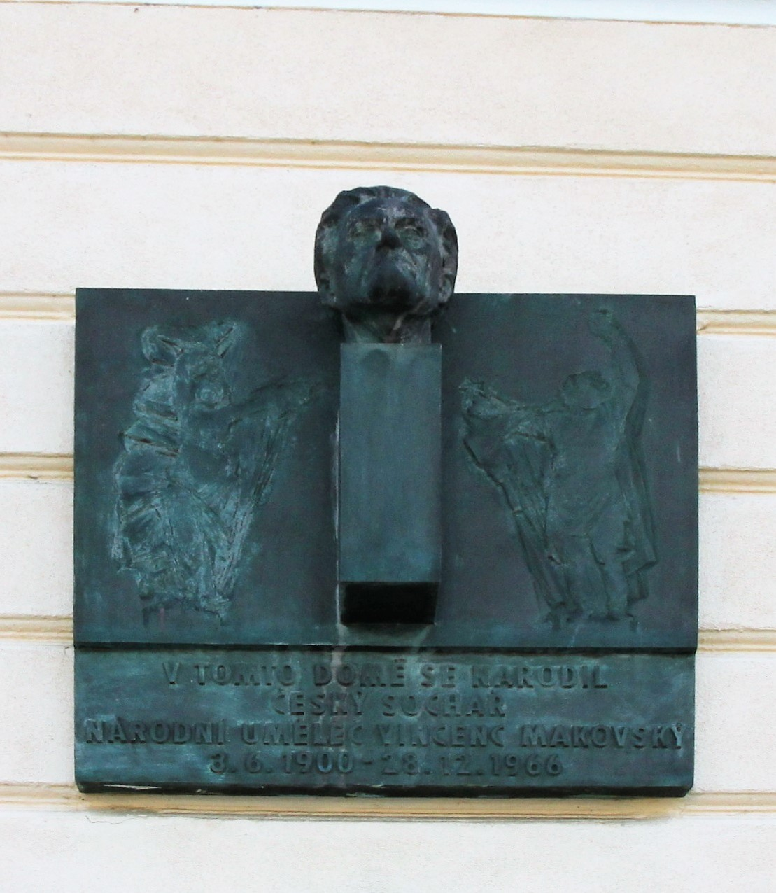 Memorial plaque to Vincent Makovský by Miloš Axman in Nové Město na Moravě, Žďár nad Sázavou District, Czechia.